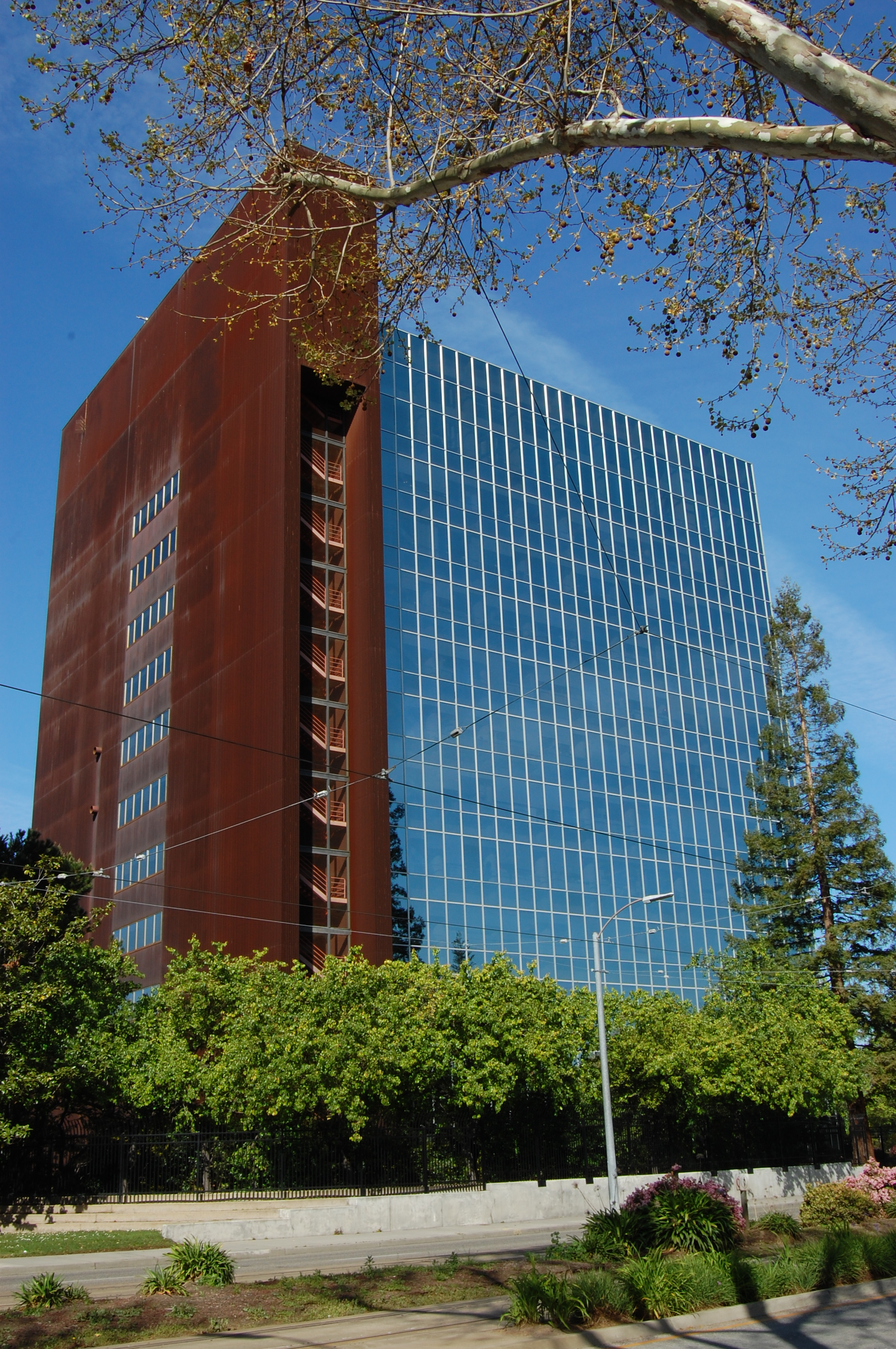 70 West Hedding Street. East Wing. San Jose, California, USA